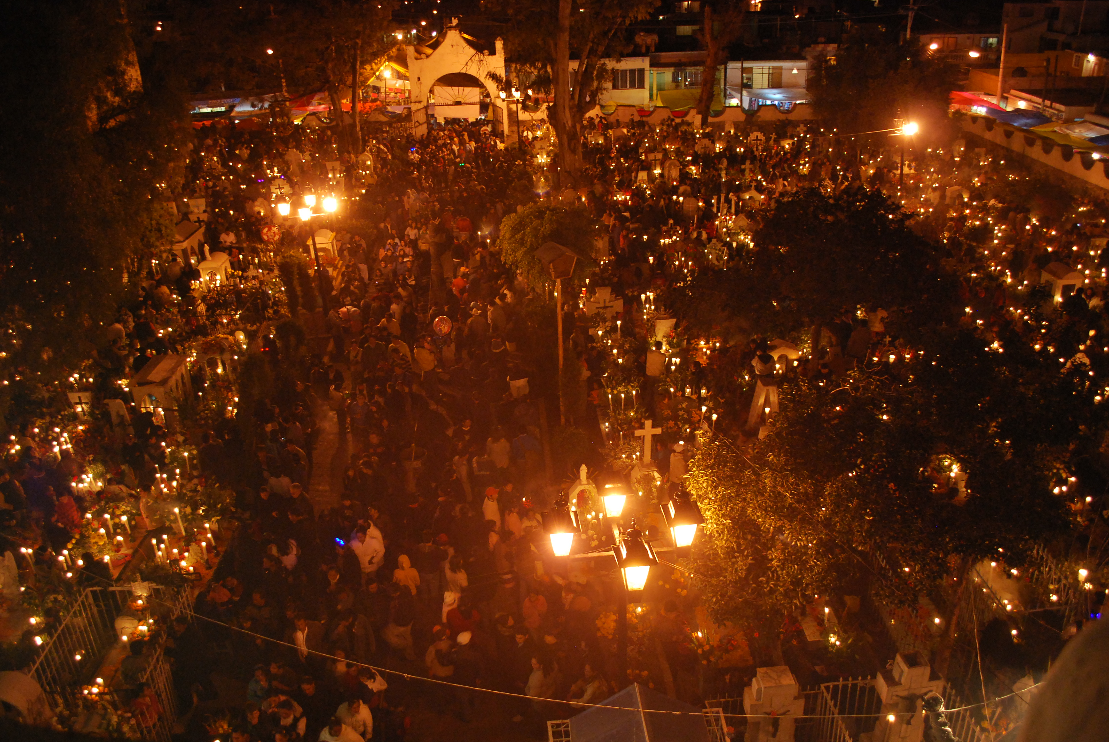 View of front portion of cemetery from the roof of the San Andres Apostol Church in San Andres Mixquic during Day of the Dead